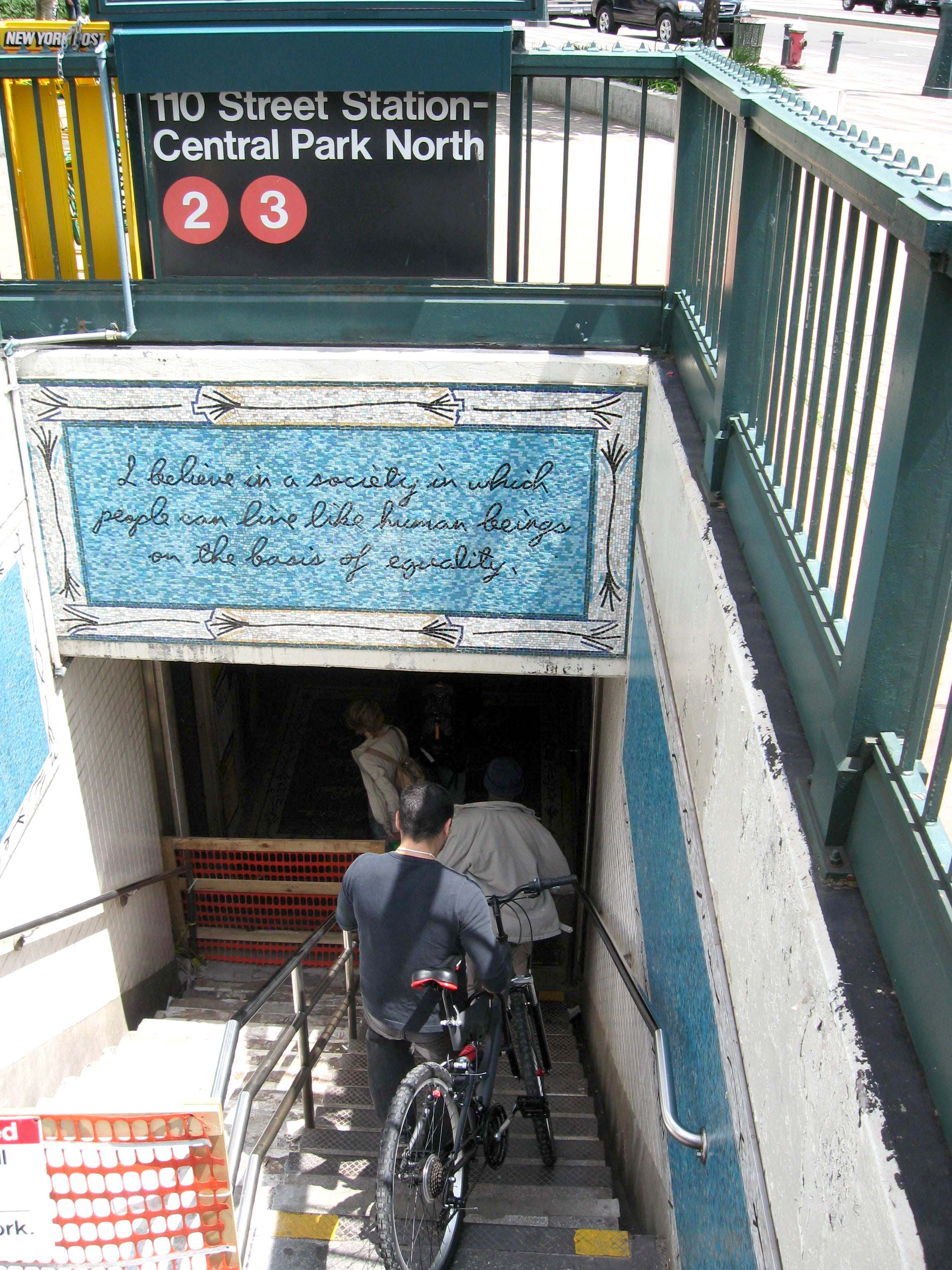 Looking north into Central Park North–110th Street (IRT Lenox Avenue Line) stair.